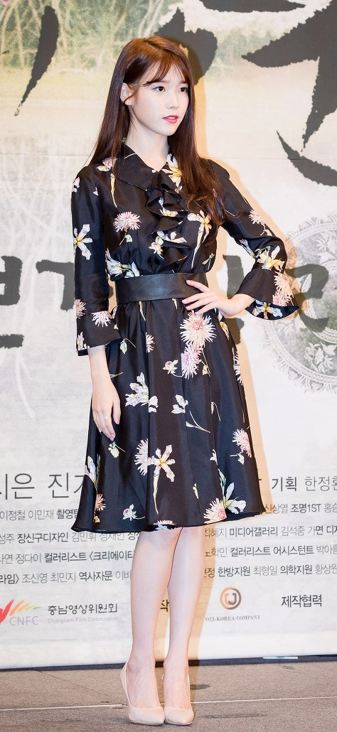 IU at "Moon Lovers - Scarlet Heart Ryeo" press conference, 24 August 2016